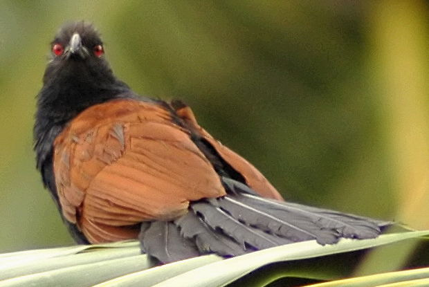 A view Greater Coucal (Centropus sinensis), in Karkala, India.